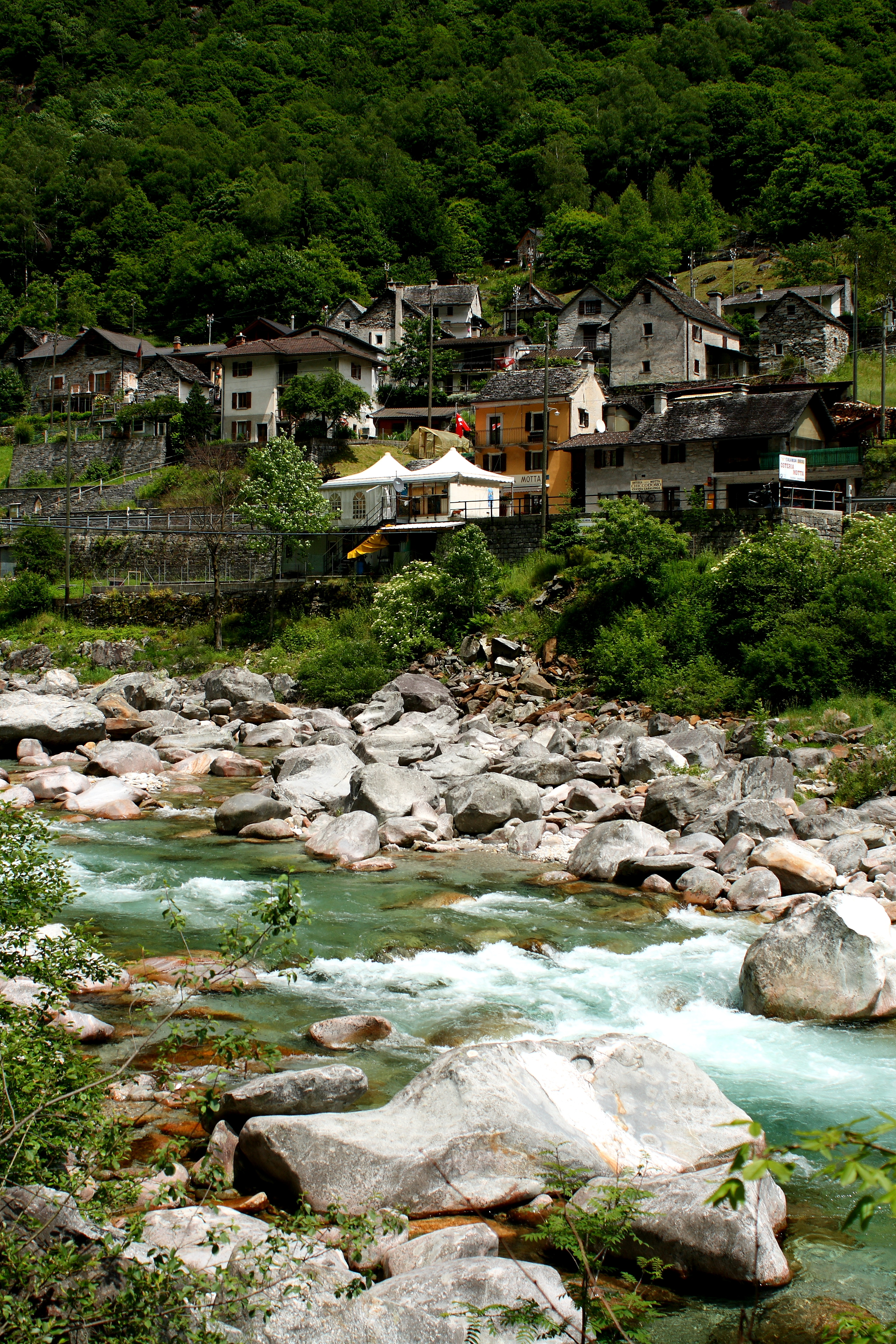 Motta Hamlet in Lavertezzo, Ticino, Switzerland